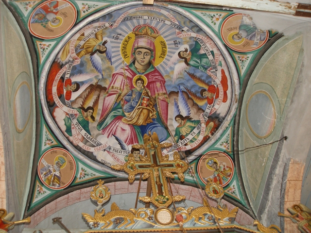 Saints Cyril and Methodius Church in Bagrentsi Angel and Inscription Fresco